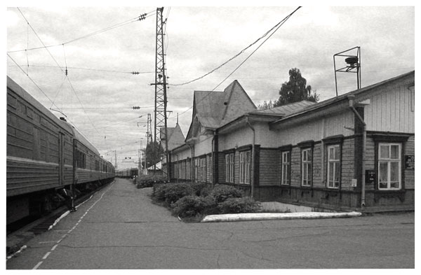 Tayshet train station, old building